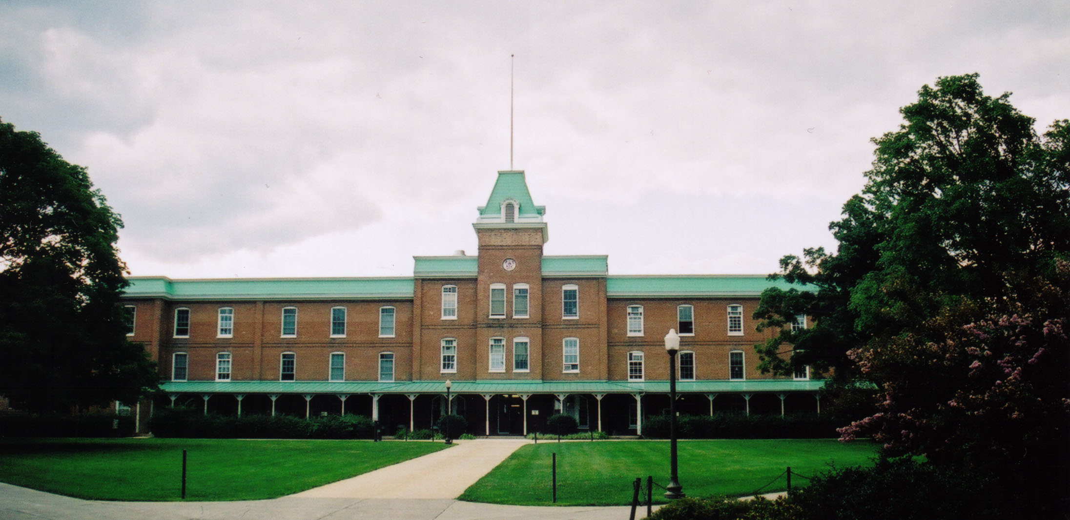 Lane Hall at Virginia Tech, 2004. This the personal photography of G. Moore